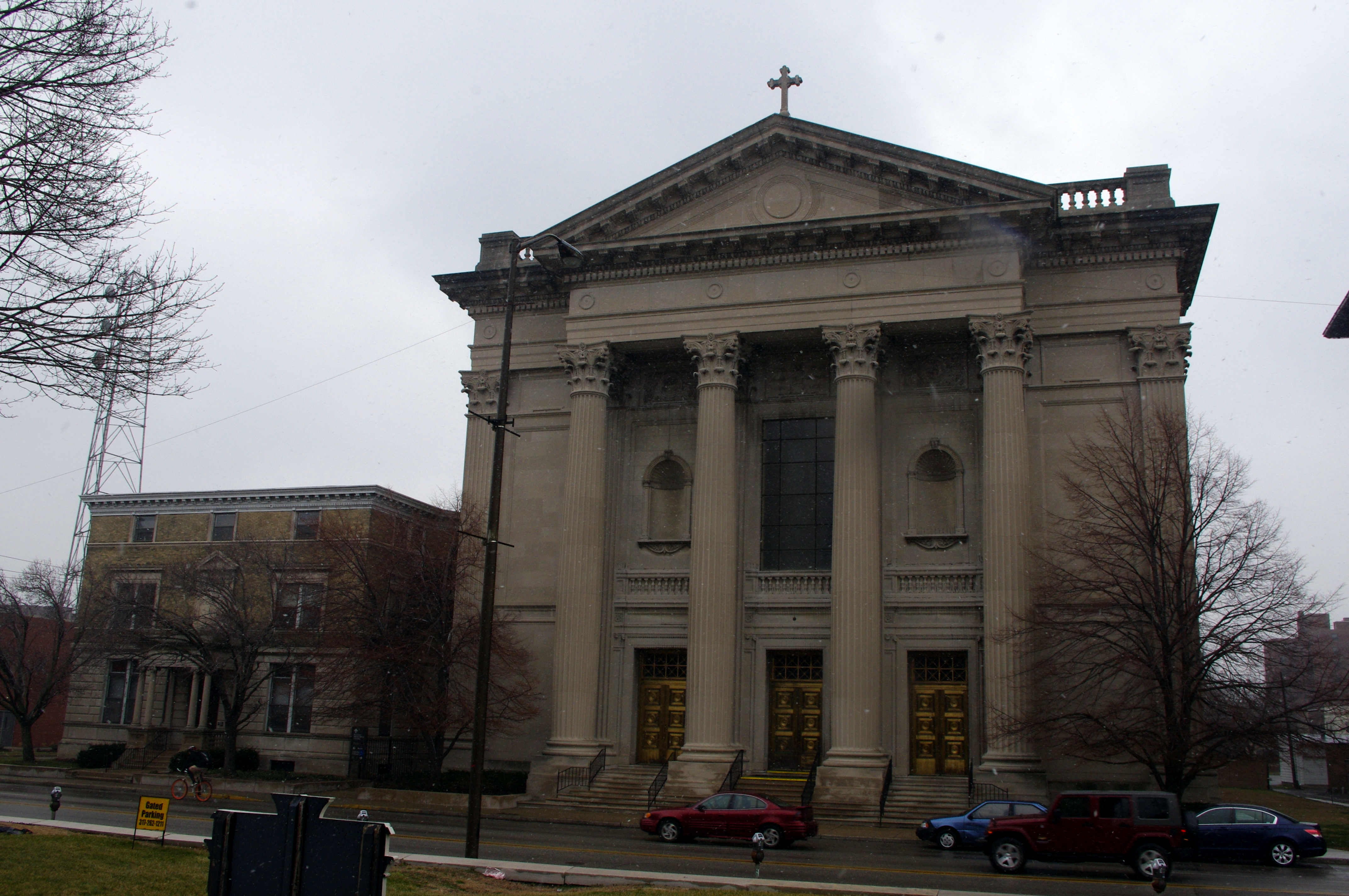 Saints Peter & Paul Cathedral (Indianapolis, Indiana), exterior view of church and rectory